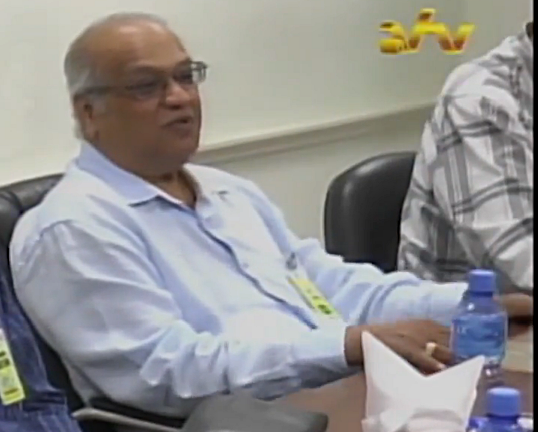 Subhas Mungra, former Surinamese government minister and diplomat